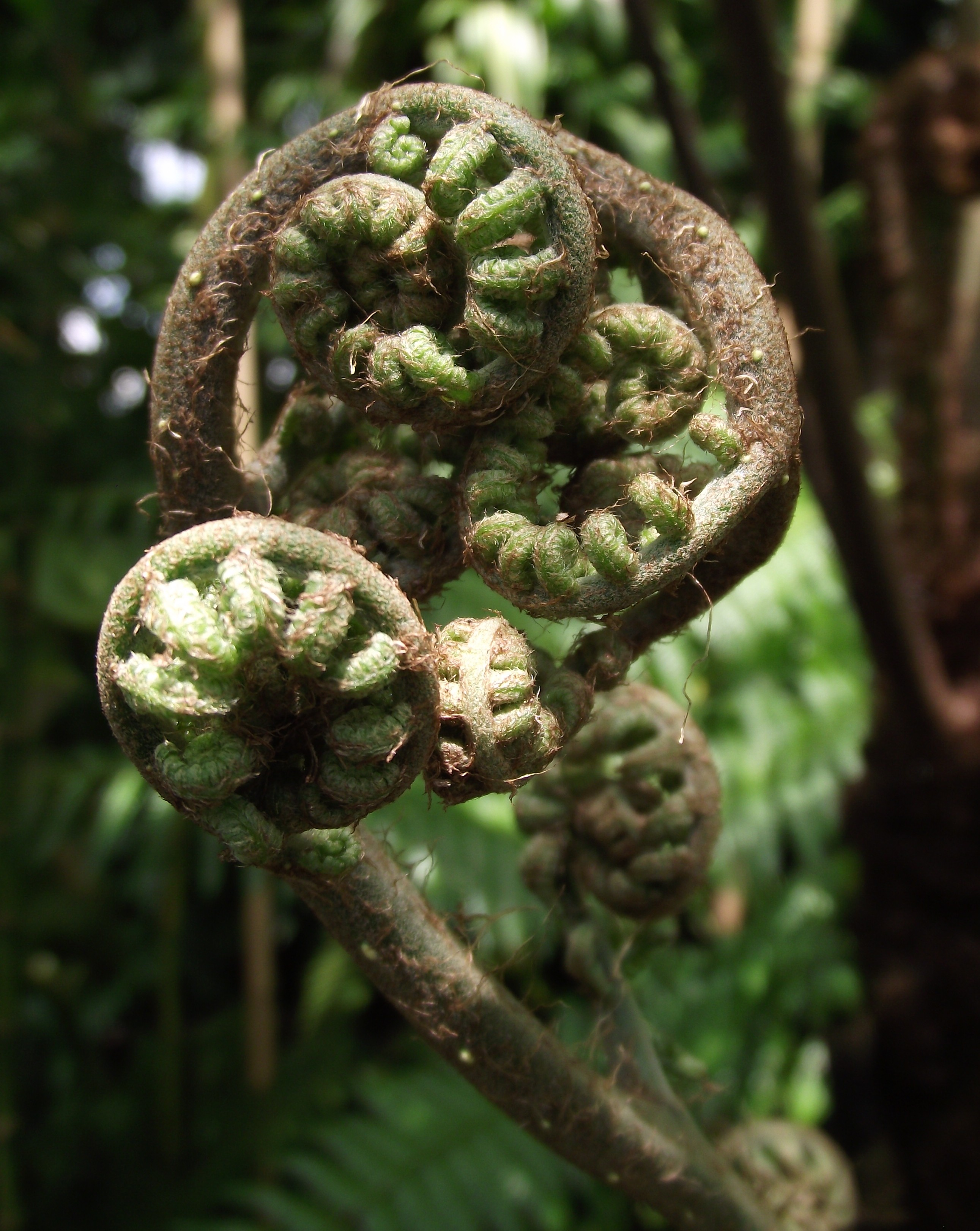 Alsophila firma at New York Botanical Garden, Bronx, NY, USA